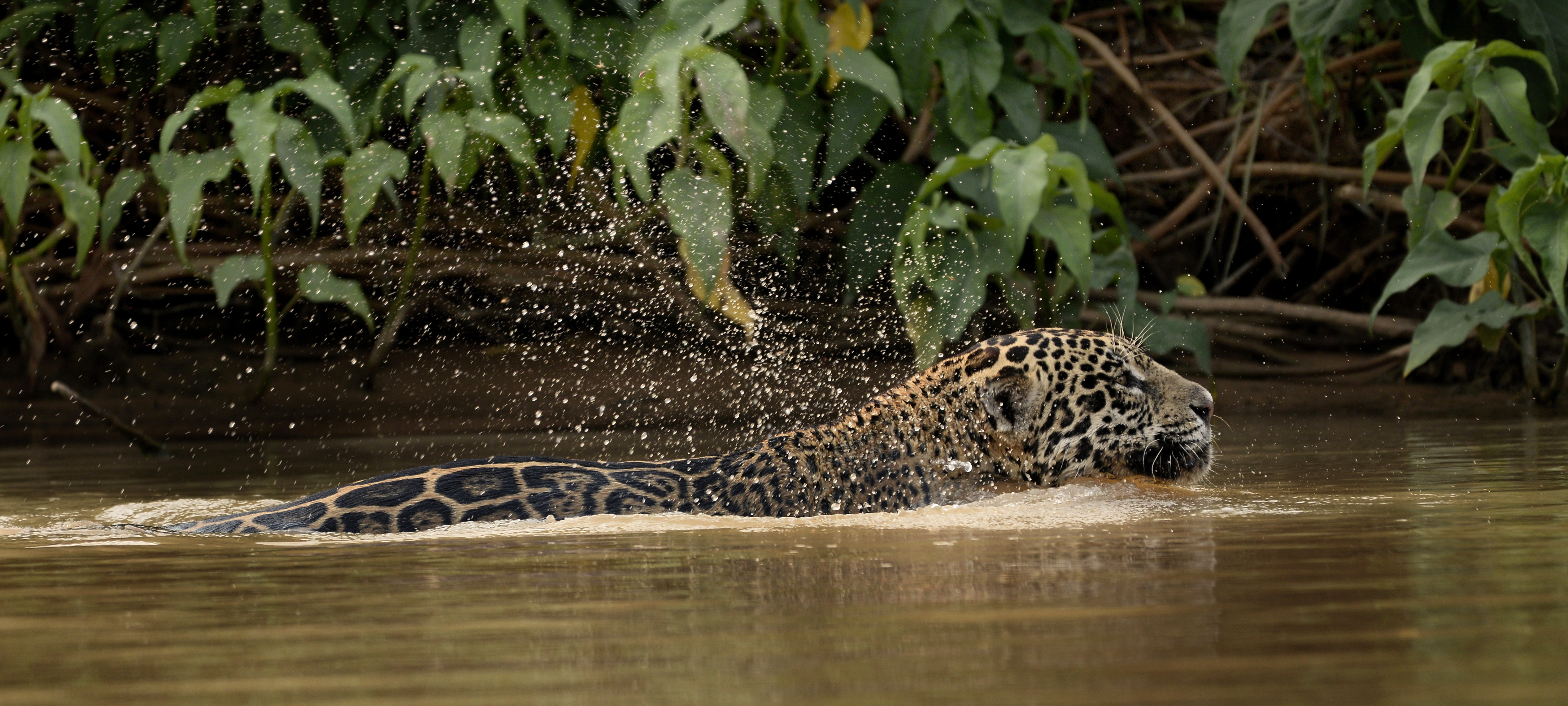 Pantanal do norte. Under en lång tid och distans färdas jag bredvid den simmande jaguarhonan. For more than 20 minutes I can follow this female jaguar when she crosses the river in northern Pantanal. Photo by: Jan Fleischmann